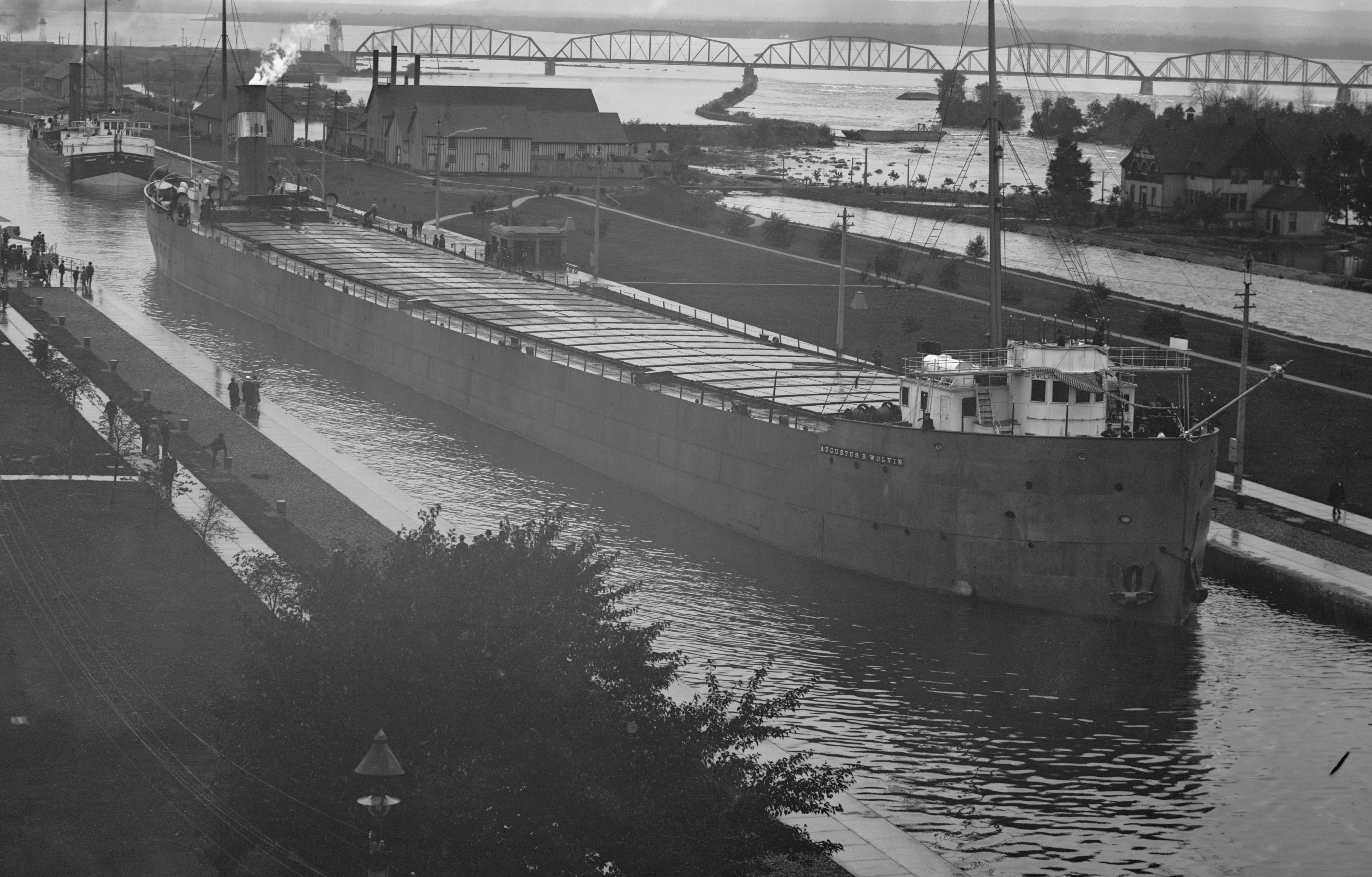 The steamer Augustus B. Wolvin in Poe Lock